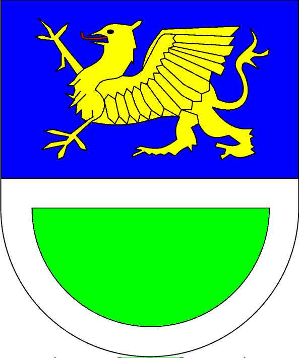 Coat of arms of the Principality of Schwerin, the former bishopric of Schwerin (Germany)